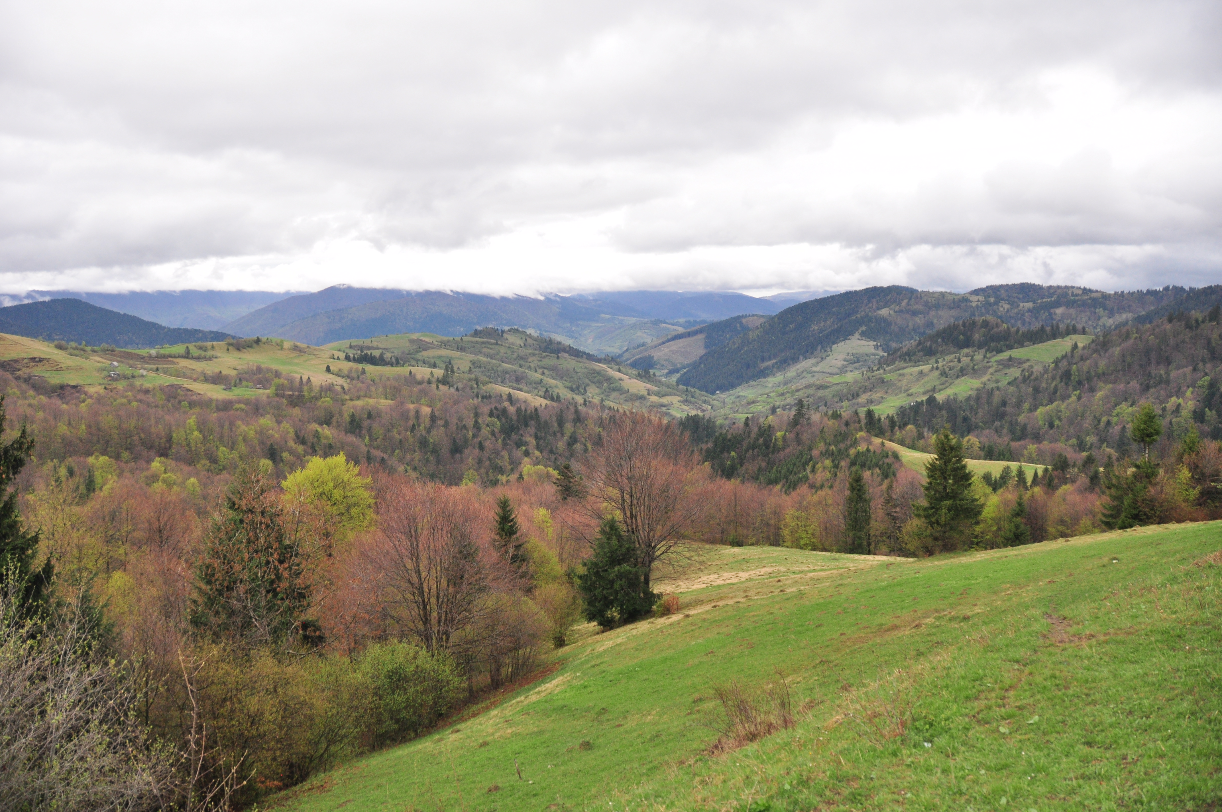 View from the ridge to the South-West from Synevyr village